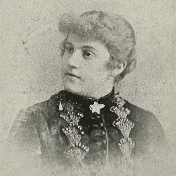 Mrs. Delia Matte de Izquierdo, president of the Ladies Club 1918 in Cjile